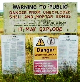 A warning sign at the military firing range near Market Lavington on Salisbury Plain, UK. ; Warning to public Danger from unexploded shell and mortar bombs Upon entering the training area you must stay on public rights of way. On no account should any object be moved or touched. It may explode